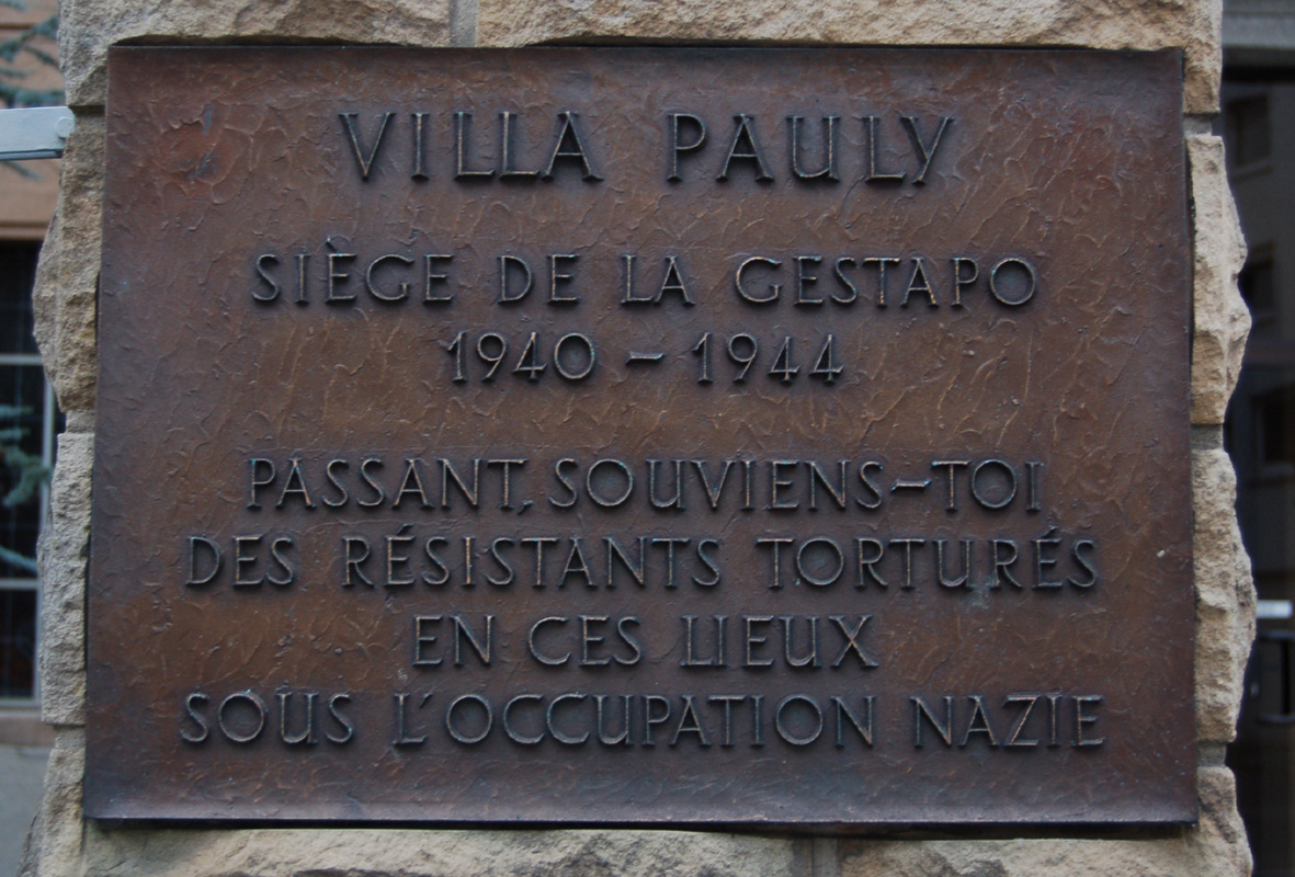 Commemoration Plate at the Villa Pauly in Luxembourg City.